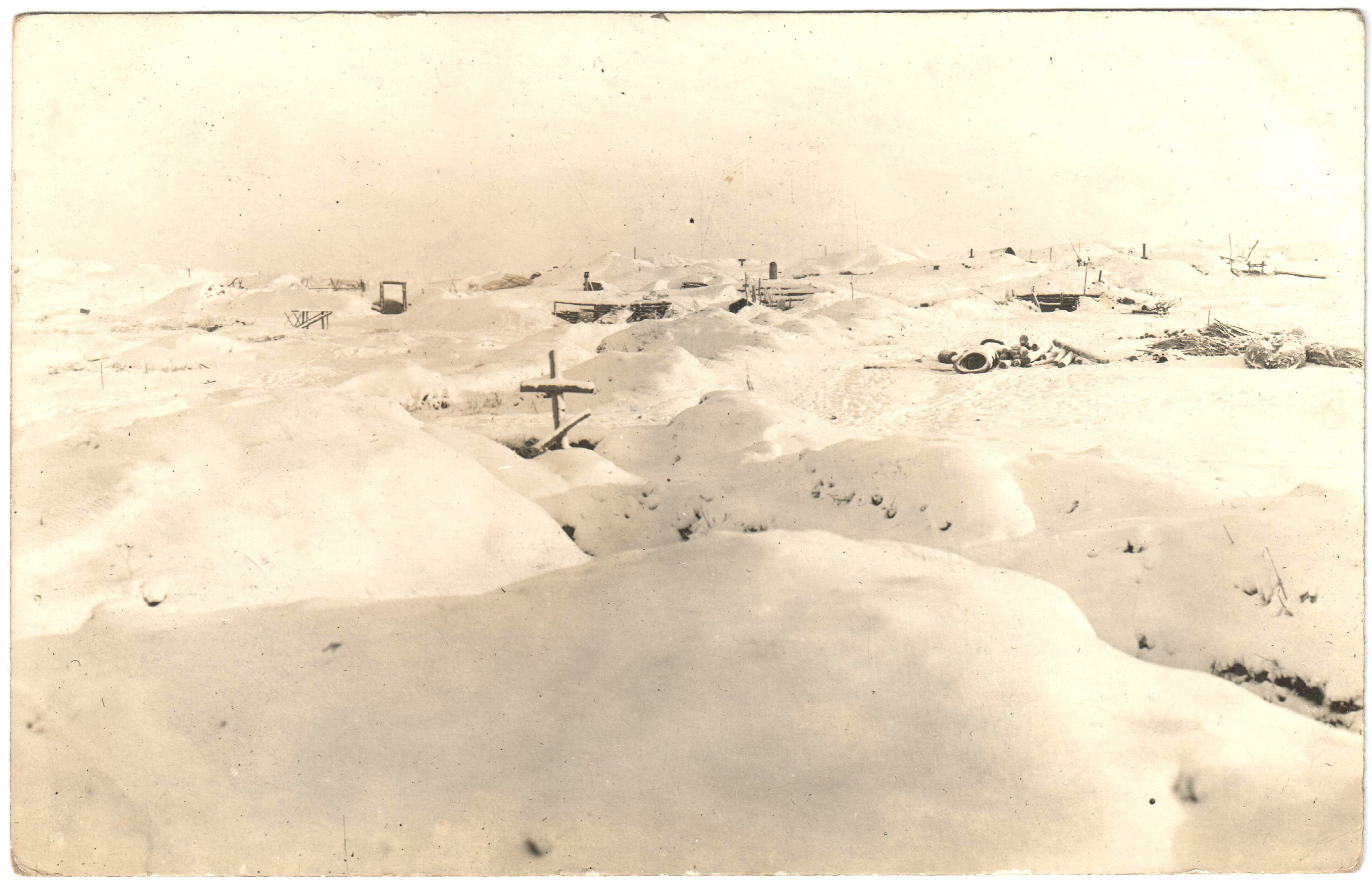 World War I view on battlefield in Russia. German frontline position. Landsturm I. R. 20. Real photo postcard, unused.